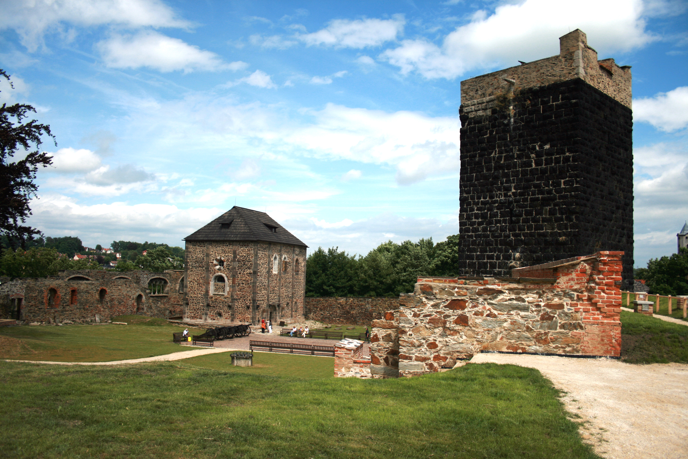 Inner space of Cheb castle with Black tower and Castle Chapel, west of Czech Republic